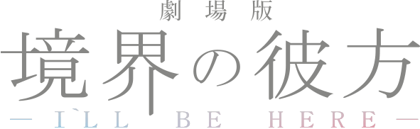 Beyond the Boundary: I'll be here movie logo